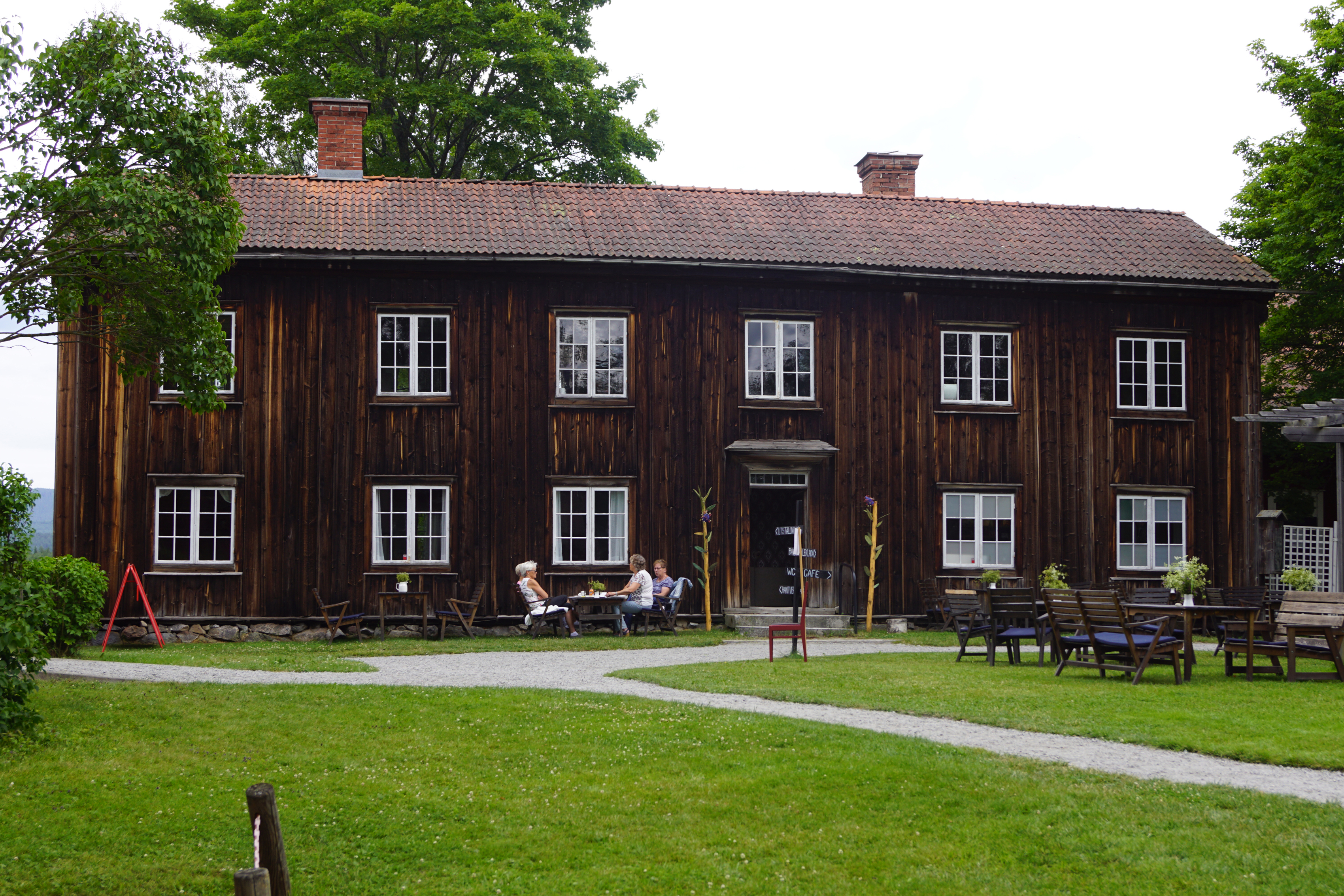 The hälsingegård (farm of Hälsingland province) Hans-Anders (Träslottet, the Wooden Castle) in Arbrå socken.